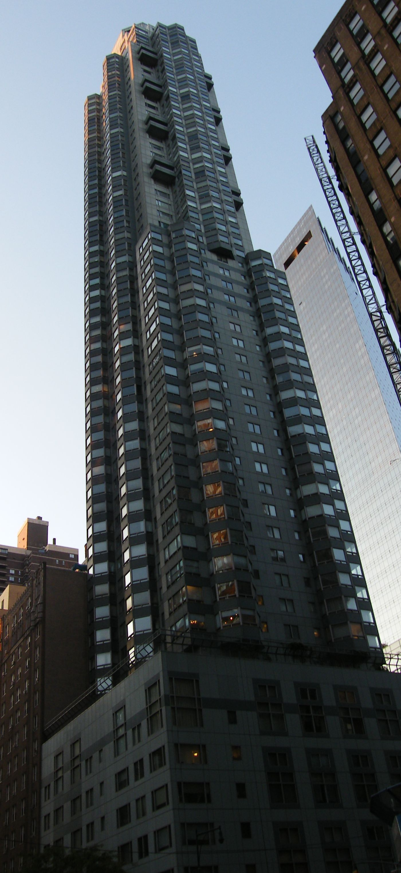 Central Park Place